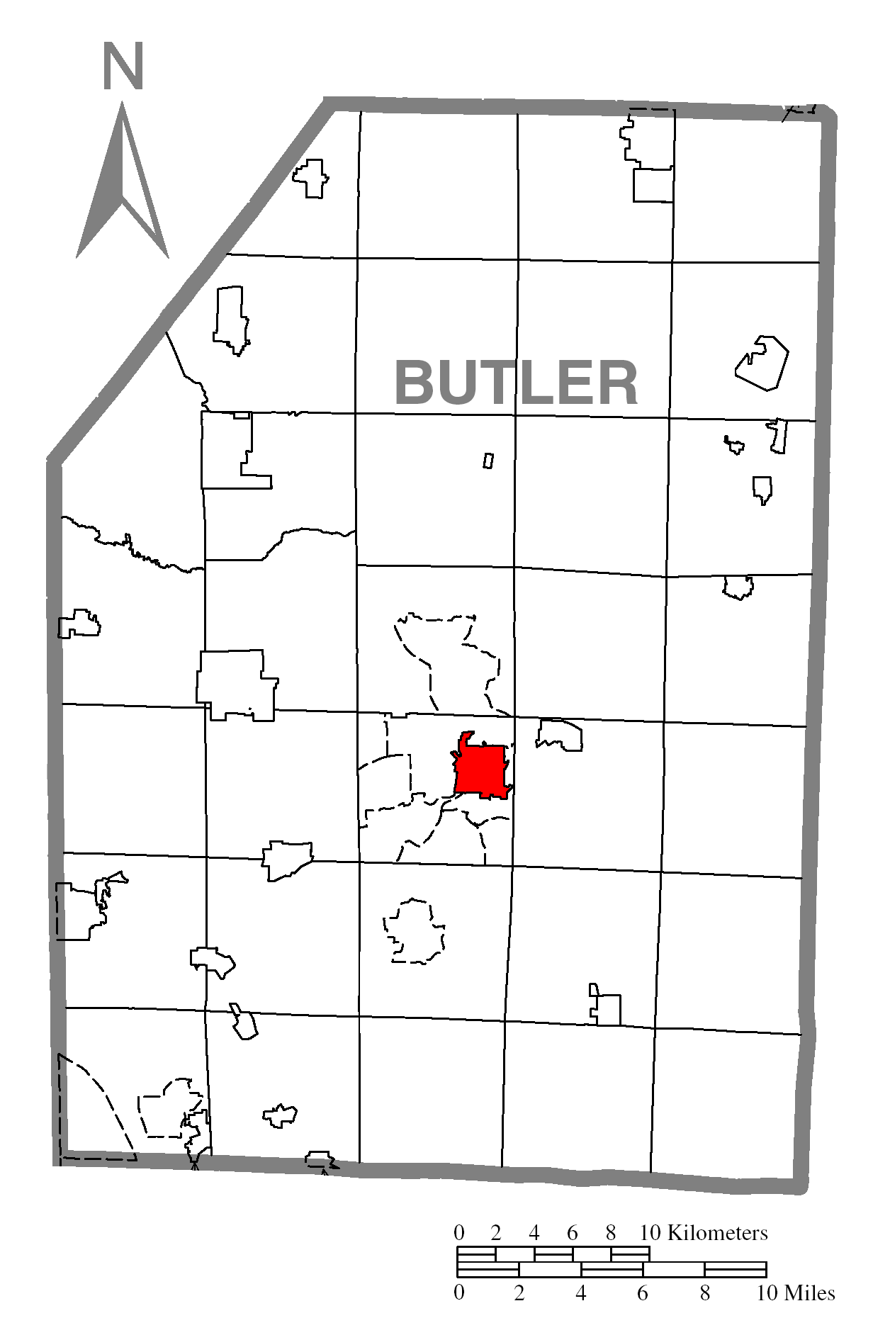 A map of Butler County showing Butler, Pennsylvania (alternate) highlighted on the map.